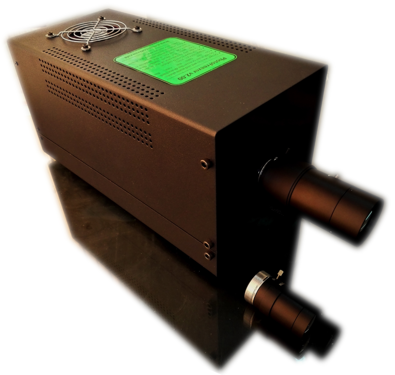 PhotoFreezer